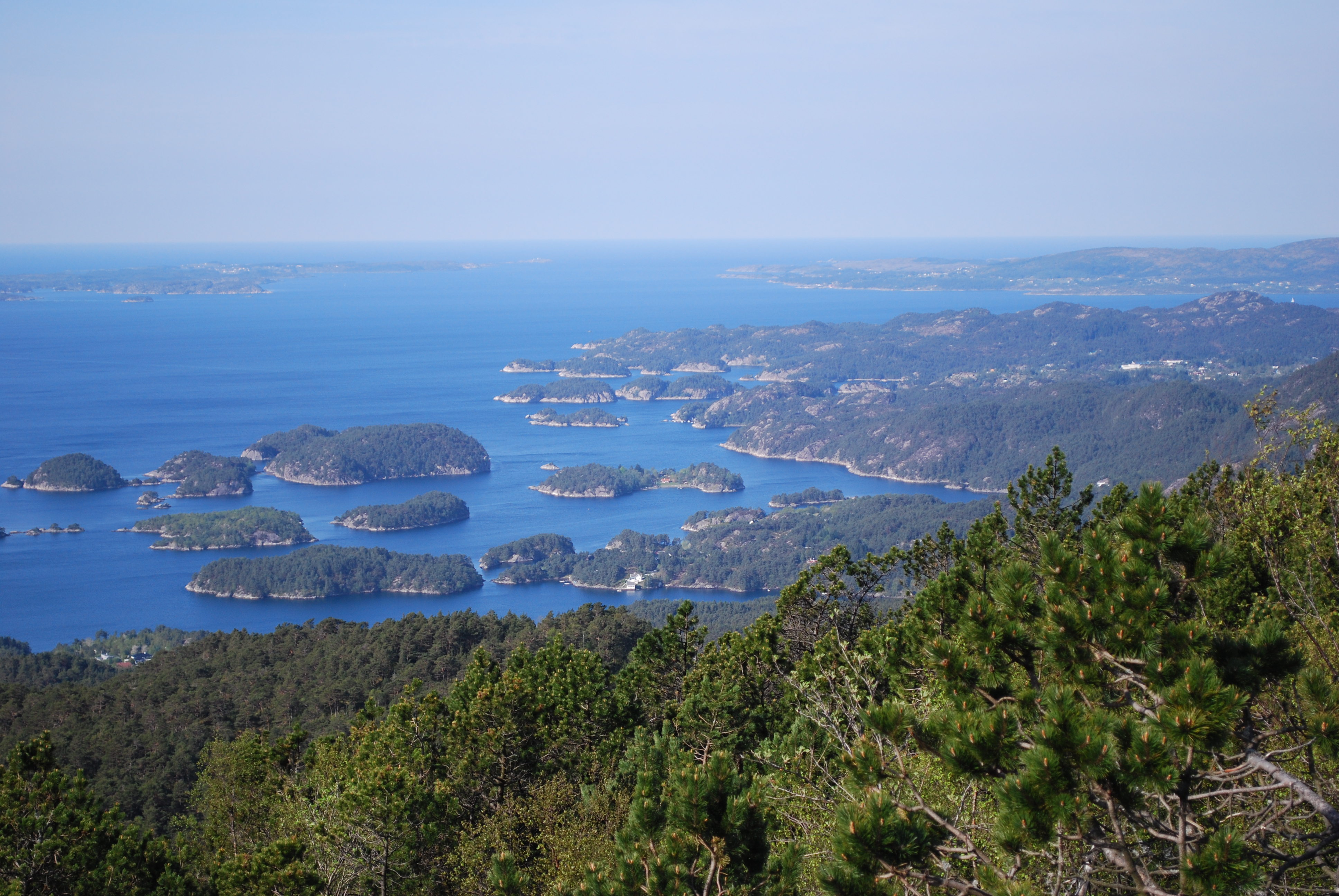 Description=Lysehornet